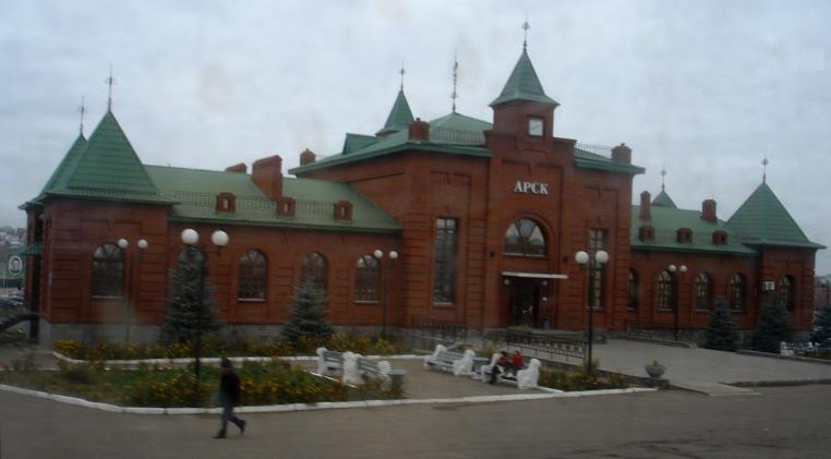 Arsk train station main building, Tatarstan, Russia.